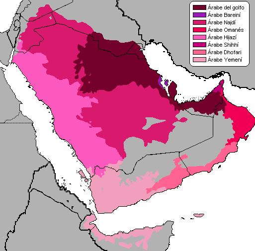 Peninsular Arabic. Gulf Arabic Bahrani Arabic Shihhi Arabic Omani Arabic Najdi Arabic Hejazi Arabic Dhofari Arabic Yemeni Arabic